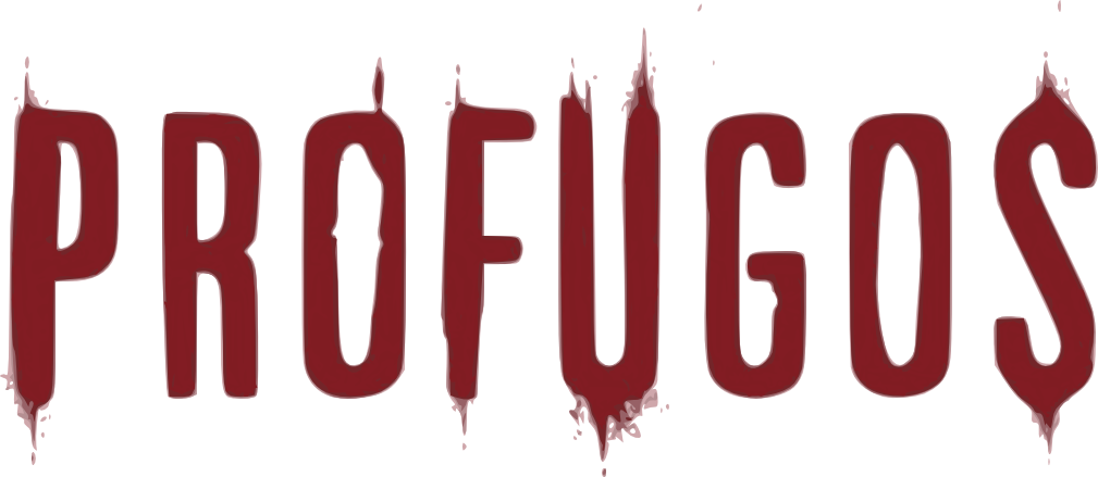 Title of the TV series Prófugos